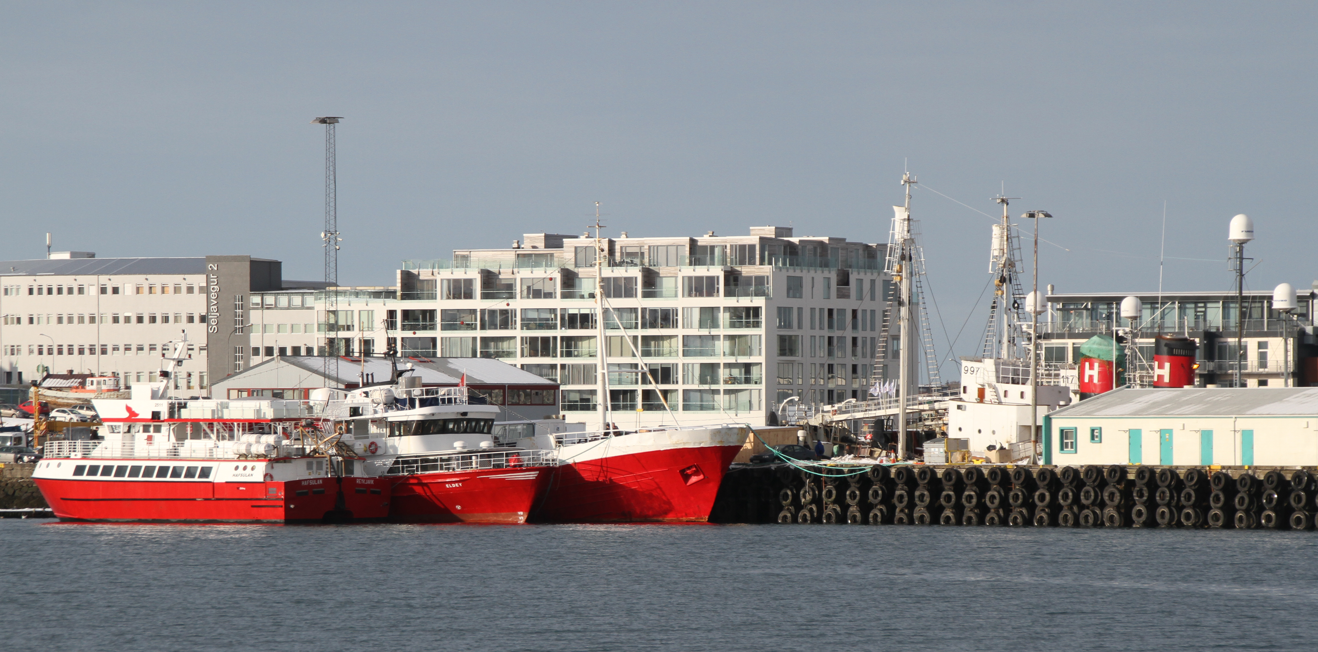 The three boats Hafsulan, Eldey and in the back the old fishing vessel Fífill now used as a Whale Watching Centre, in Reykjavík harbour. The boats to the right with H on funnel on the same dock are whaling ships.